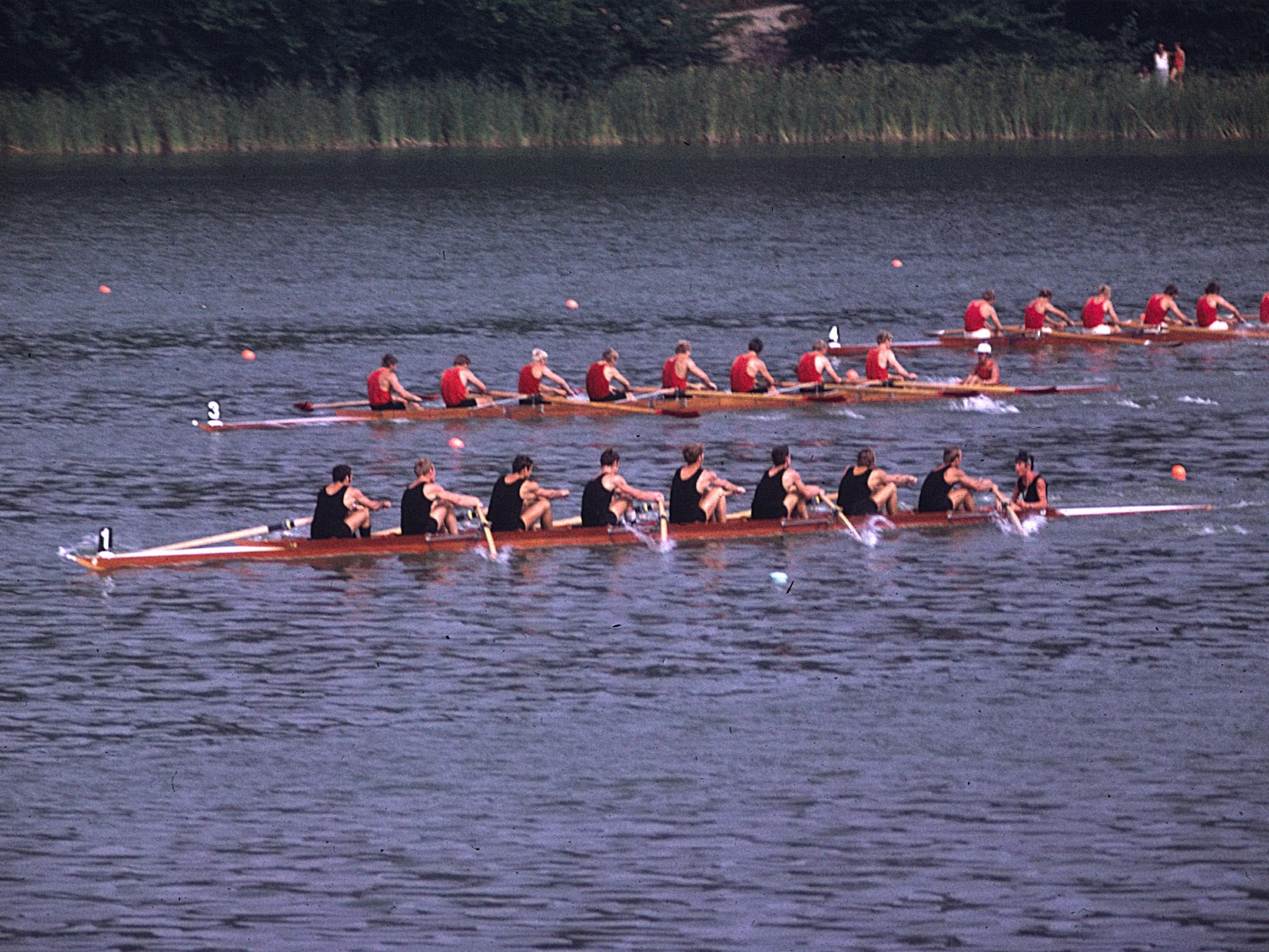 1971 European Rowing Championships. In the M8+, NZL is ahead of URS and TCH in the semi-final.